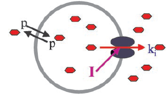 The leak rate (due to passive diffusion) constant is p, the pump rate (active efflux) is ki in the presence of an inhibitor I of the pump.